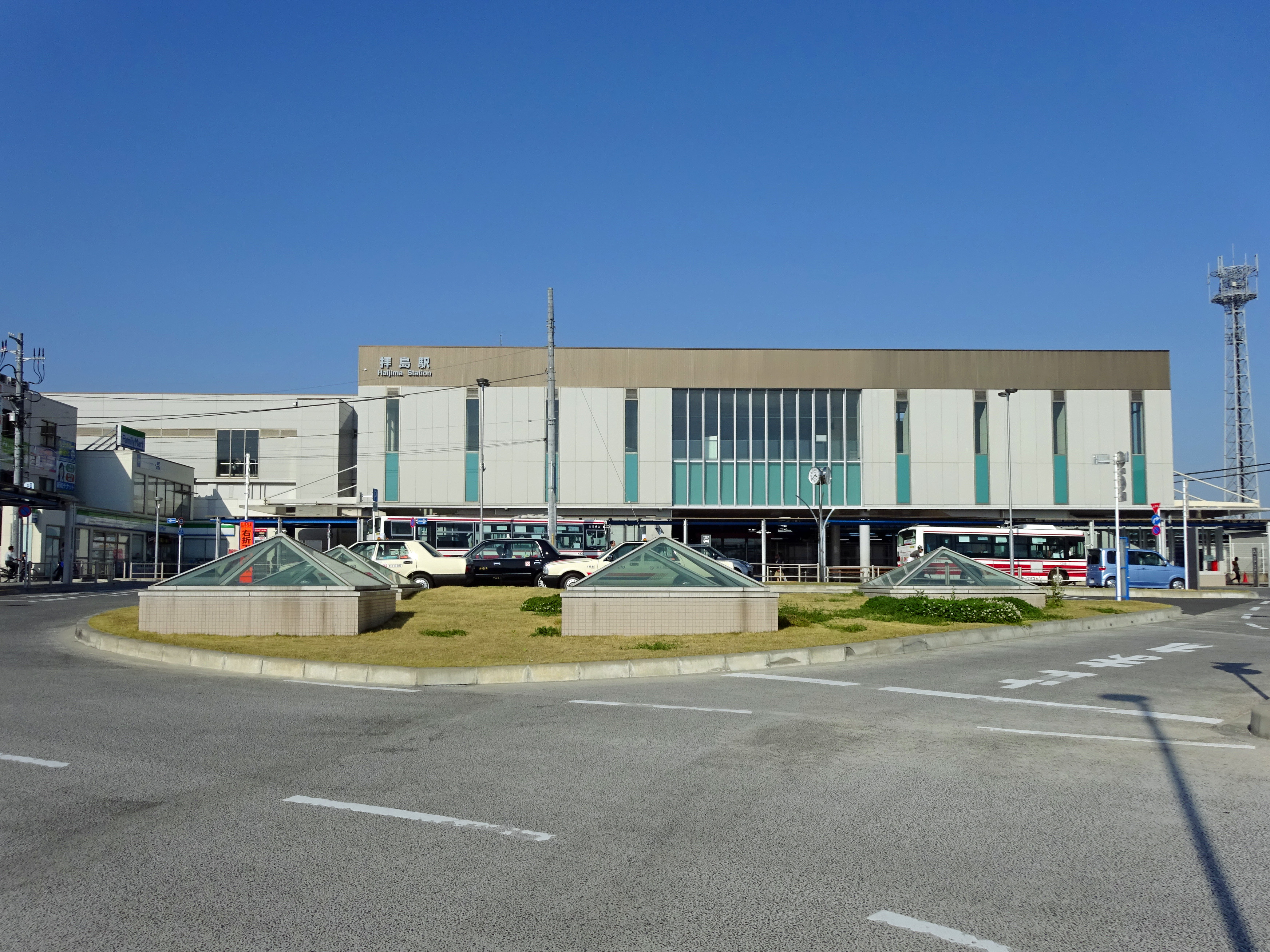 Sorth entrance of Haijima Station